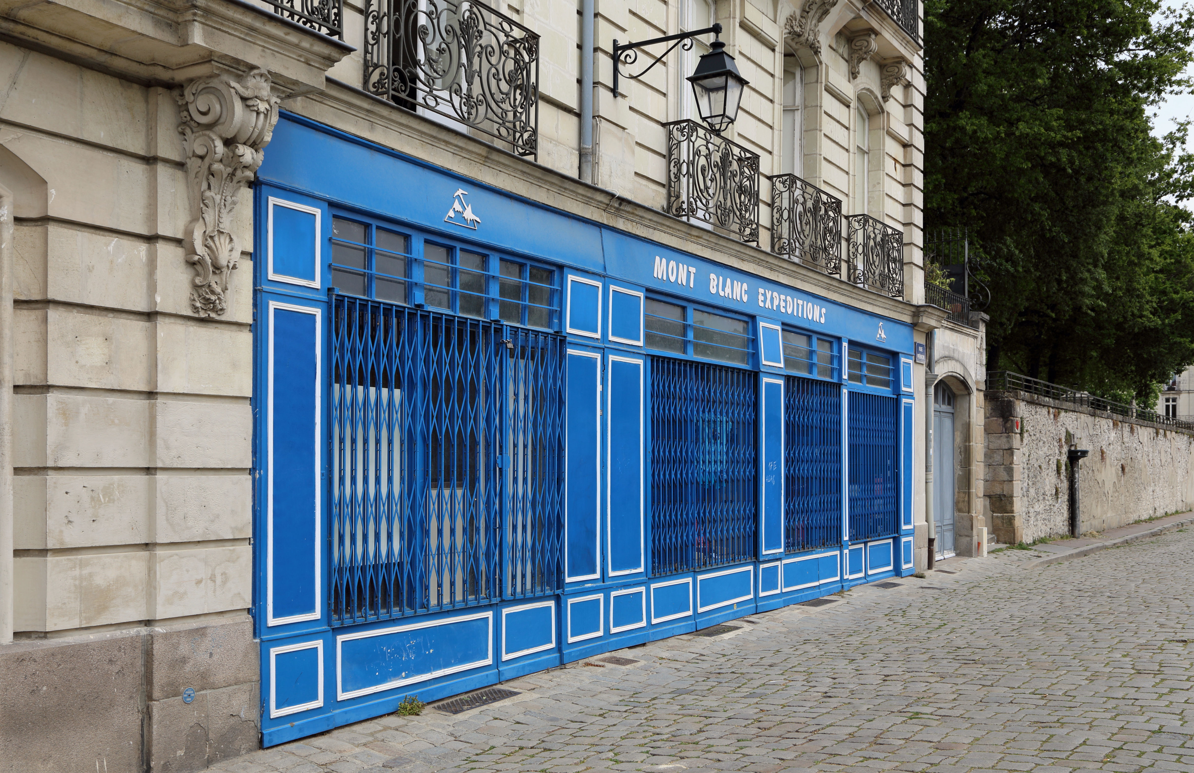 Nantes (Loire-Atlantique department, France): shopfront in the Rue Prémion